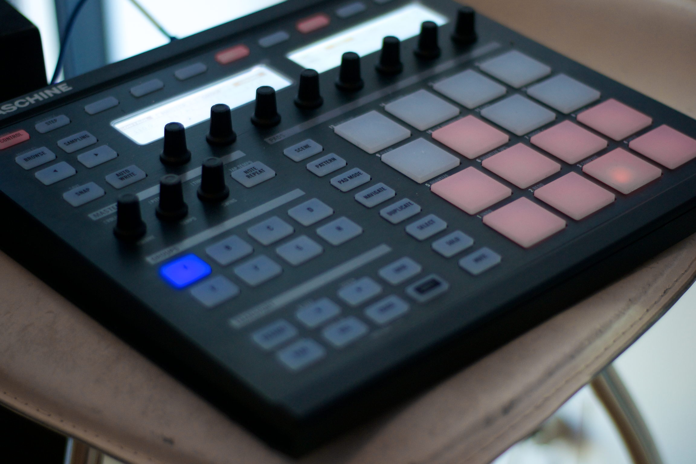 NI Maschine "I want!"— Jeeves Miguel